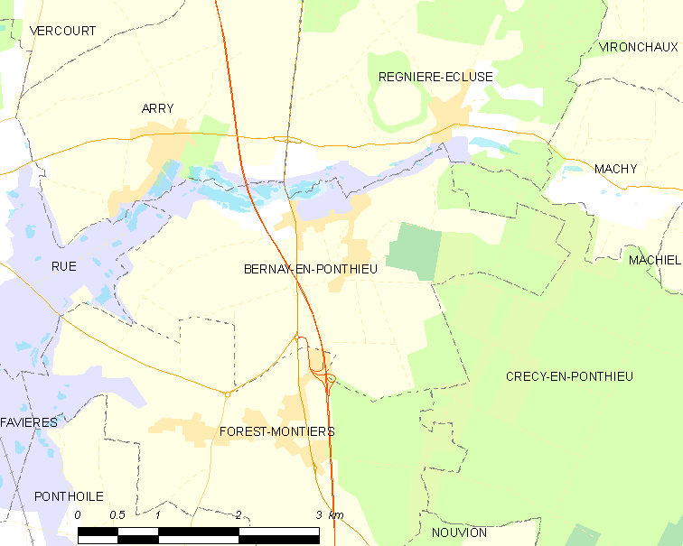 Map of French municipality Bernay-en-Ponthieu